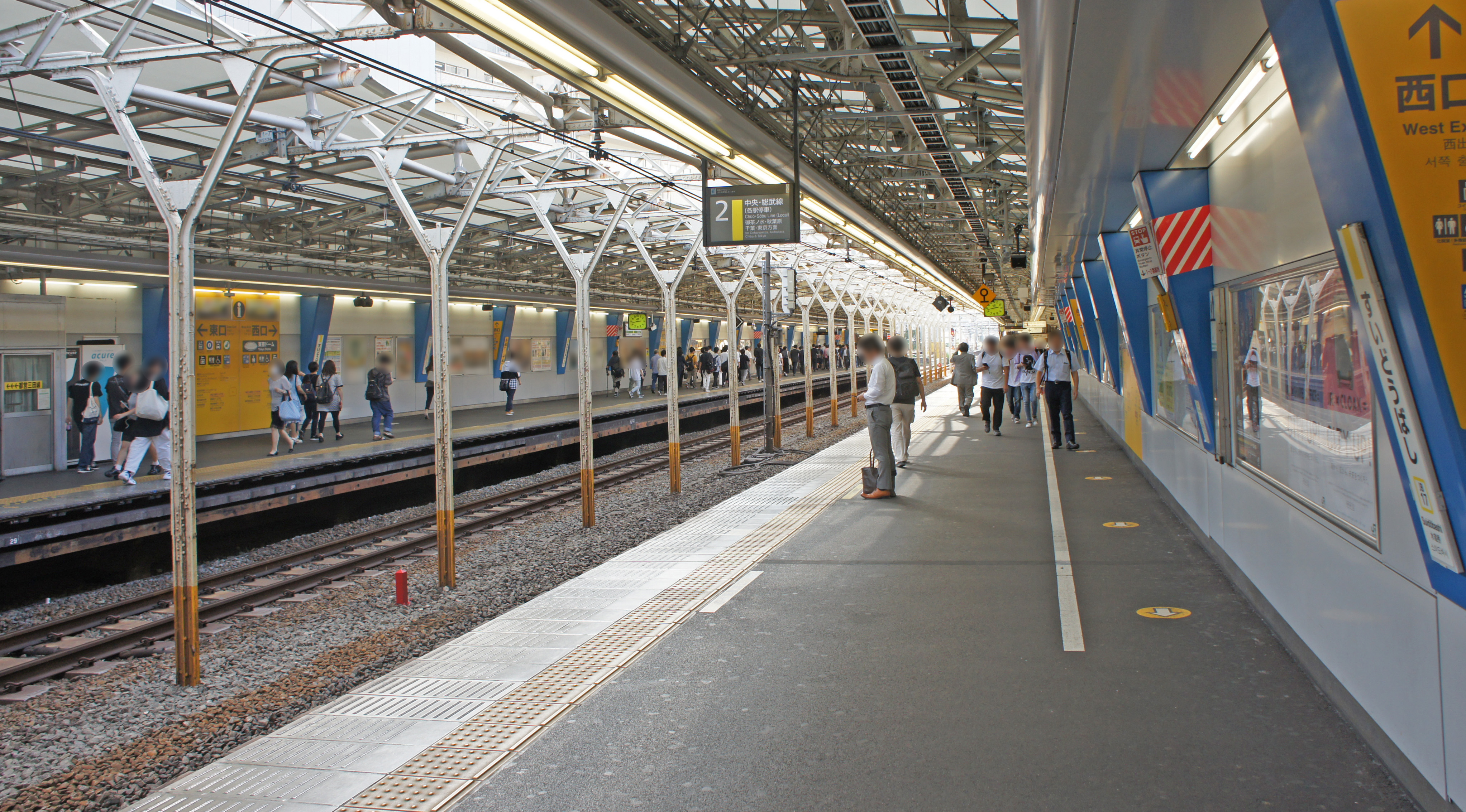 Platform of JR Chuo-Main-Line Suidobashi Station